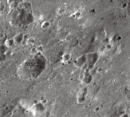 Weinek lunar crater as seen from Earth with satellite craters labeled